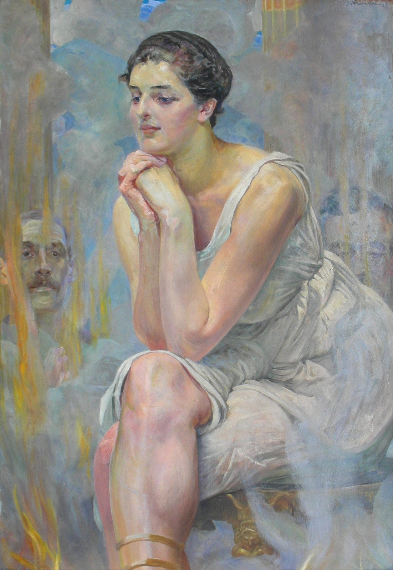 Pithia